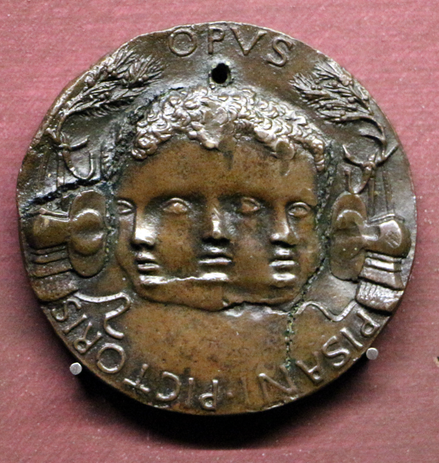 Renaissance medals in the Museo Correr